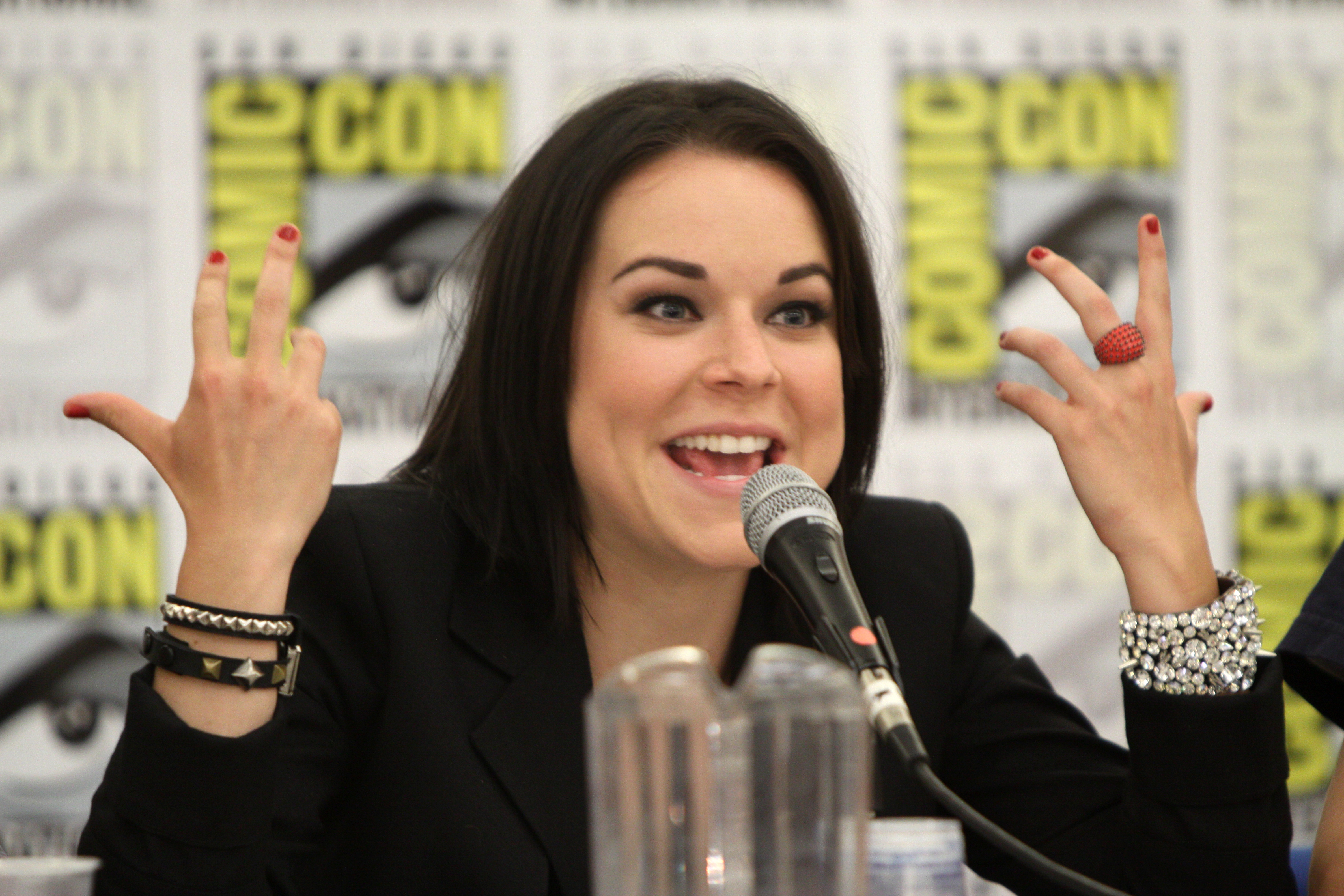 Tina Majorino at the 2011 San Diego Comic-Con International in San Diego, California.